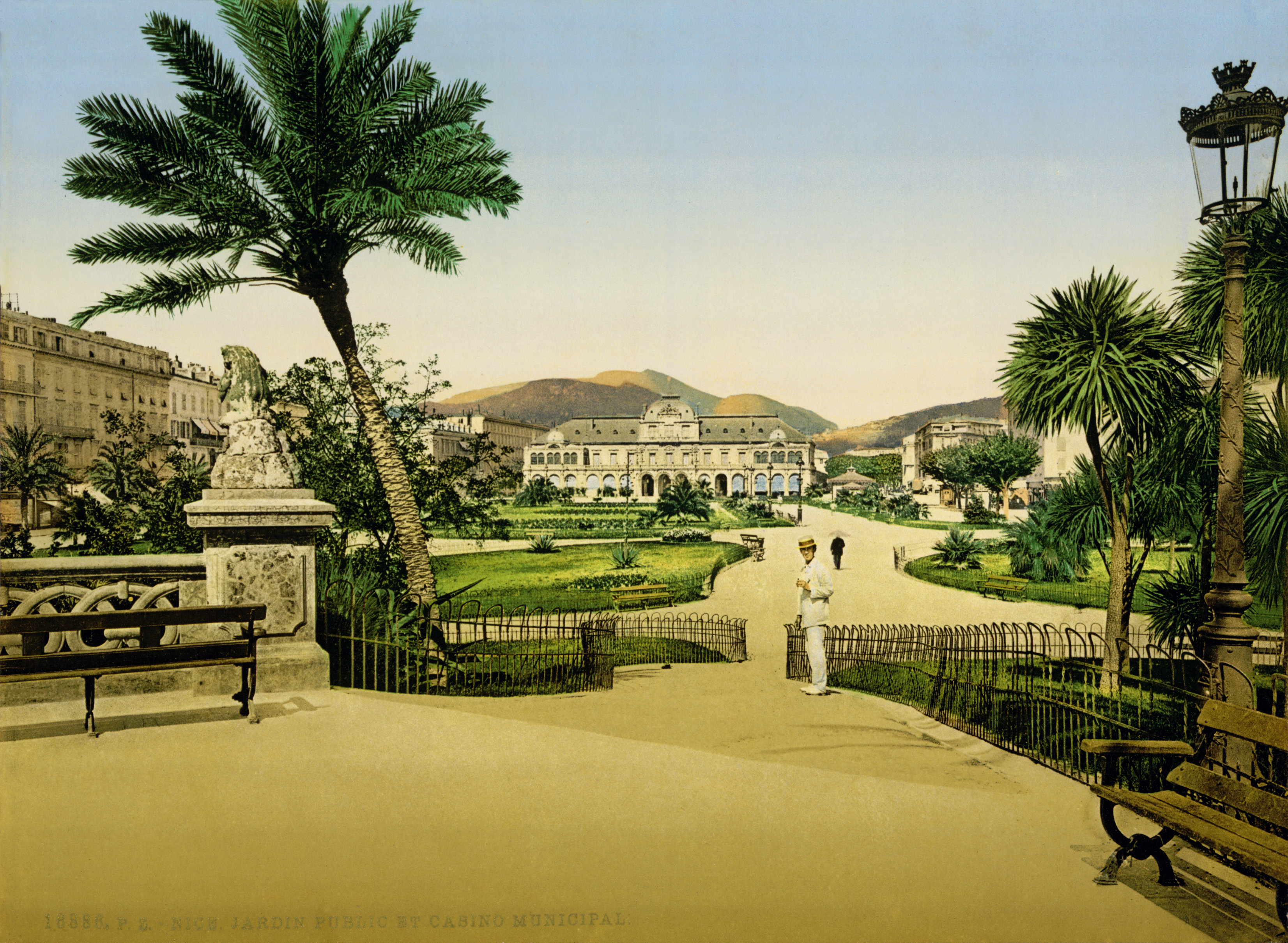 16886 P.Z. Nice, Jardin public et Casino Municipal. Photochrom print by Photoglob Zürich, between 1890 and 1900. From the Photochrom Prints Collection at the Library of Congress More photochroms from France | More photochrom prints [PD] This picture is in the public domain